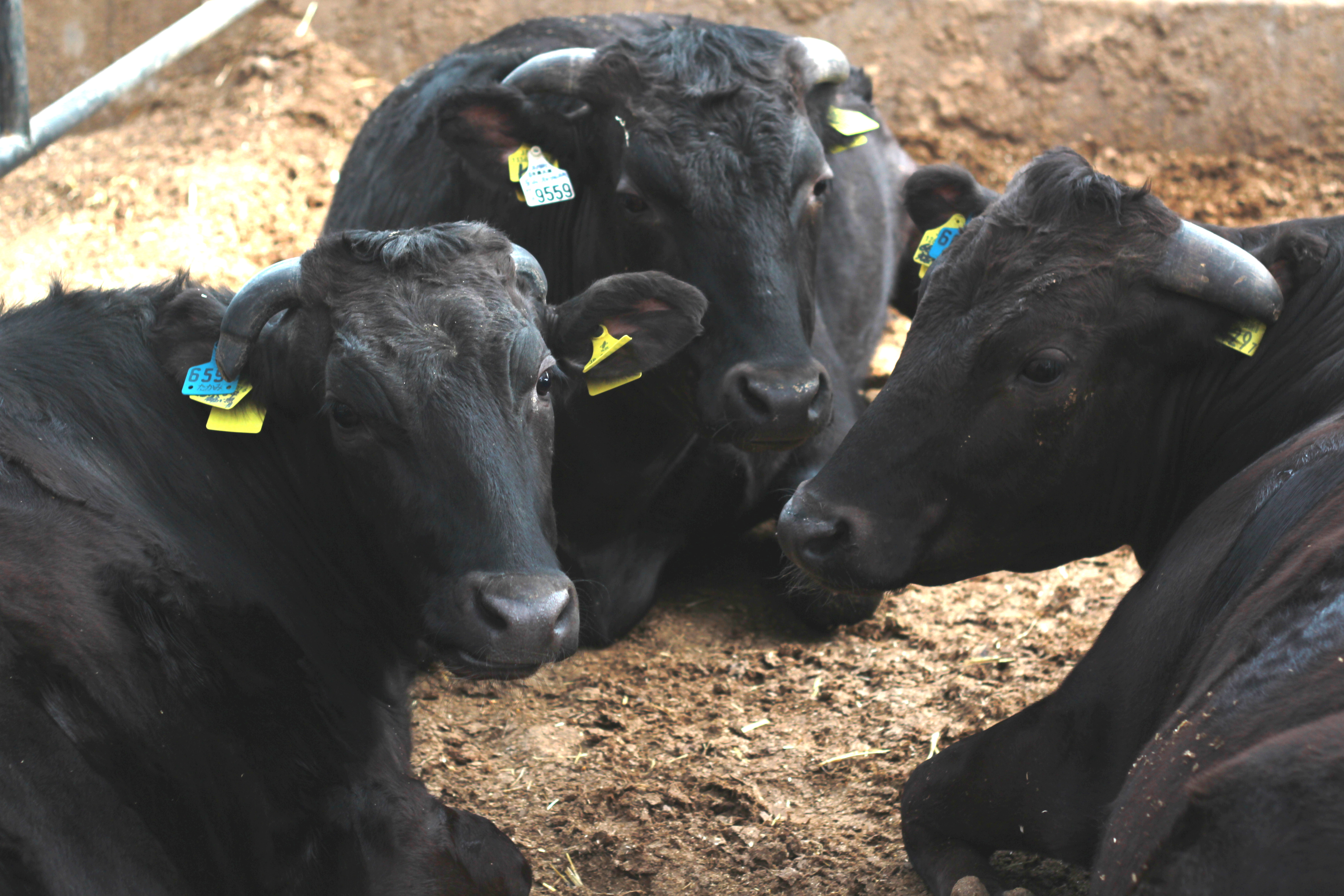 Tajima cattle at a farm in northern Hyogo Prefecture (Kobe). If its meat ends up with a sufficient grade, it will be sold as Kobe beef.